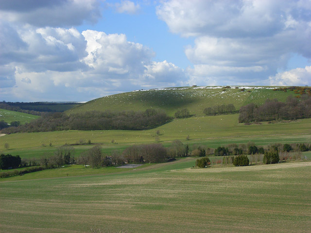 Walbury Hill Britain's highest chalk hill viewed from Suggletone Down.